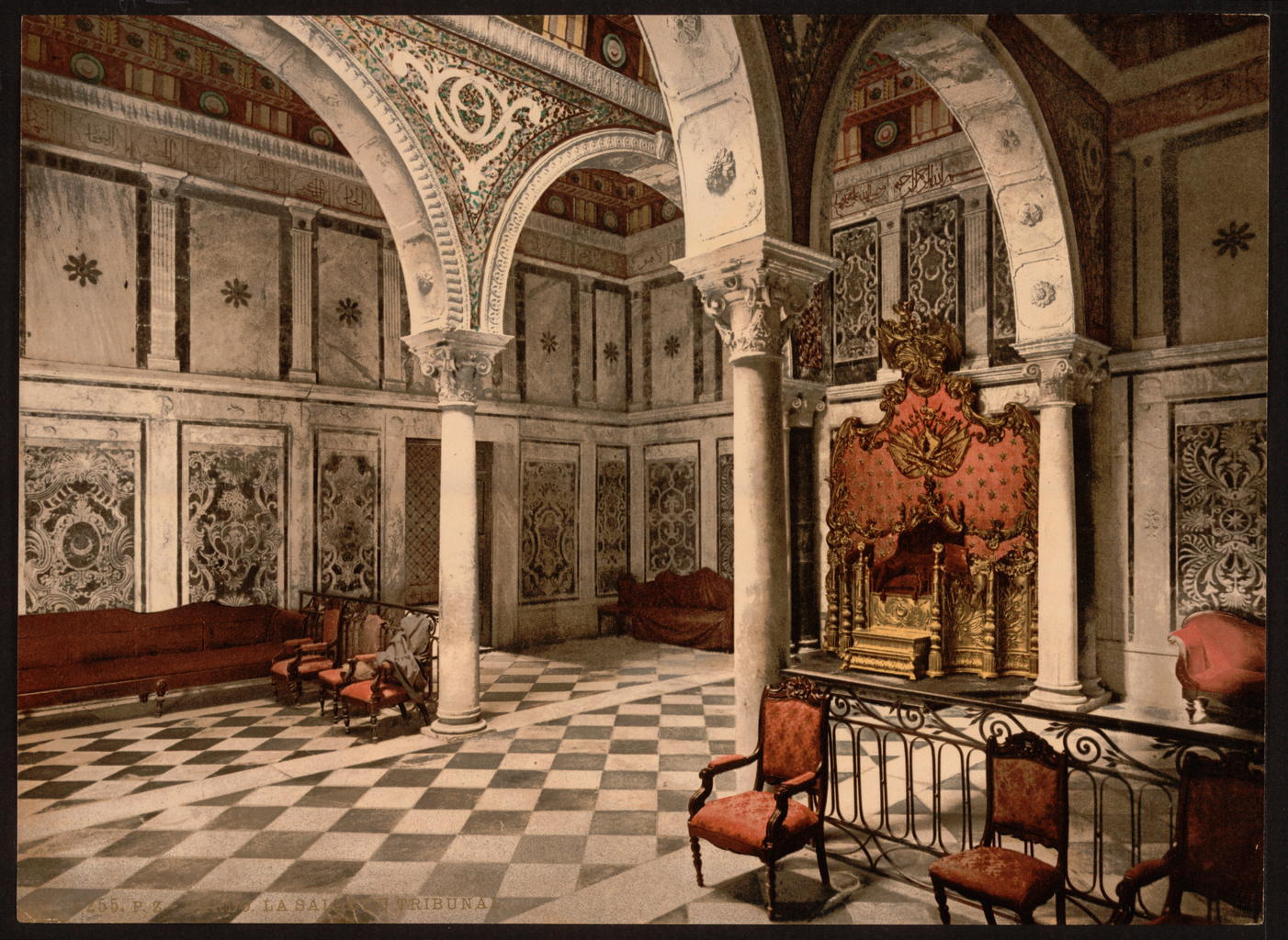 This photochrome print of the tribunal chamber in the Bardo Palace in Tunis is part of “Views of Architecture and People in Tunisia” from the catalog of the Detroit Photographic Company. Baedeker’s The Mediterranean: Handbook for Travellers (1911) informed its readers that the Bardo, located in the fertile plain to the west of Tunis, was a 13th- century palace that was “the former winter-residence of the beys.” It once “formed a little town by itself” and housed “a treasury, a mosque, baths, barracks, and a prison.” This photo shows the richly decorated tribunal chamber, which Baedeker called the “dwelling of the court officials.” The Detroit Photographic Company was launched as a photographic publishing firm in the late 1890s by Detroit businessman and publisher William A. Livingstone, Jr., and photographer and photo-publisher Edwin H. Husher. They obtained exclusive rights to use the Swiss "Photochrom" process to convert black-and-white photographs into color images and to print them by means of photolithography. This process originated the mass production of color postcards, prints, and albums for sale to the American market. Courtrooms; Interiors